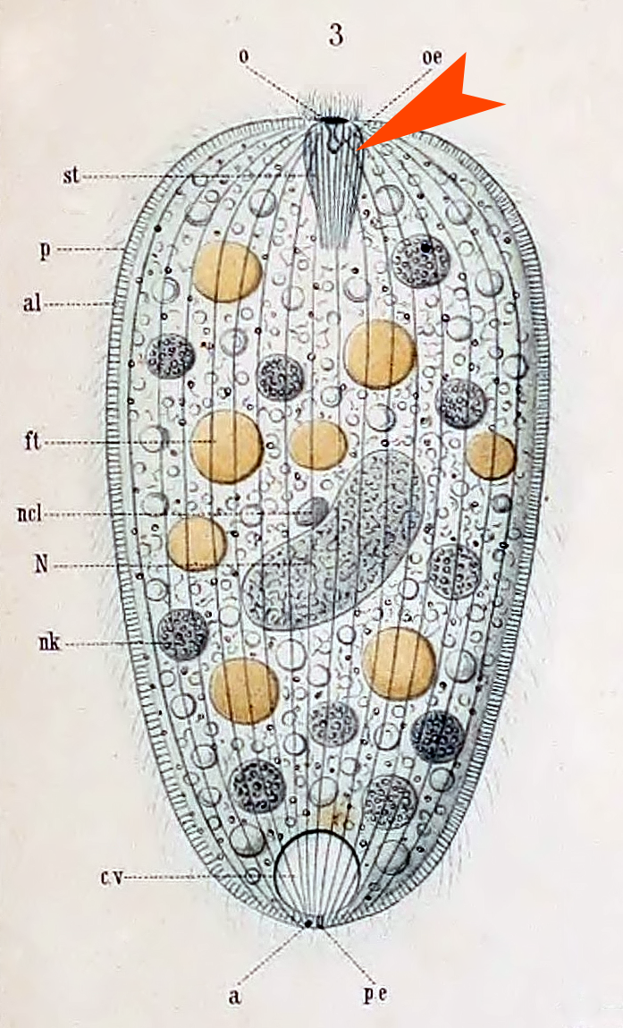 Plate I: Tafel I. * Fig. 3 — 8. Holophrya discolor. Ehrbg. * Fig. 3. Seitliche Ansicht eines länglichen, nicht contrahirten Individuums. Vergr. 660.